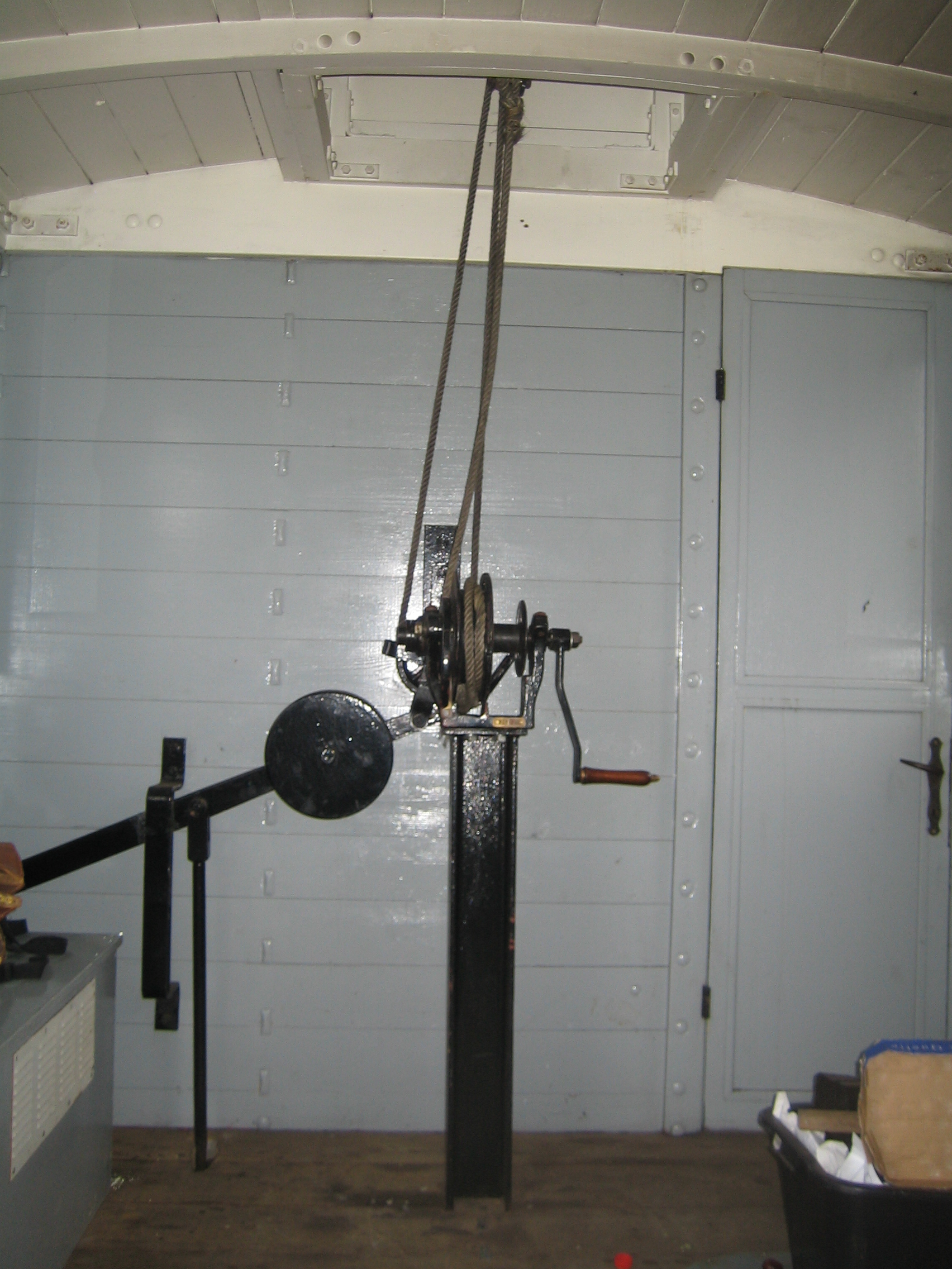 brake drum for gravity brake in vintage lugage car of DEV, Germany